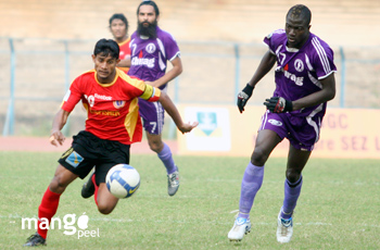 This photo is free to share and to use by giving credit to . For high resolution version Visit